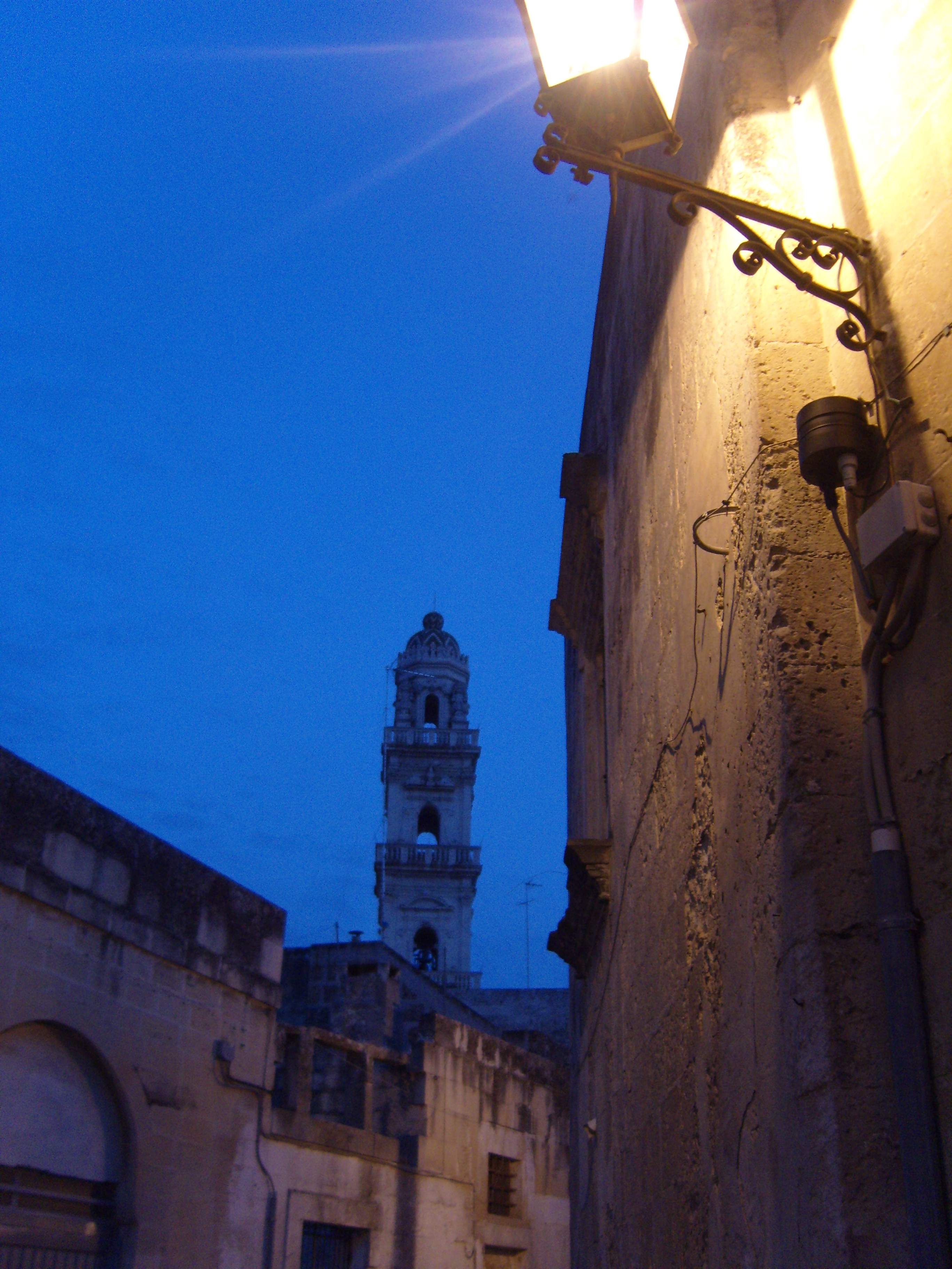 Maglie belltower, Province of Lecce - Apulia (Italy)